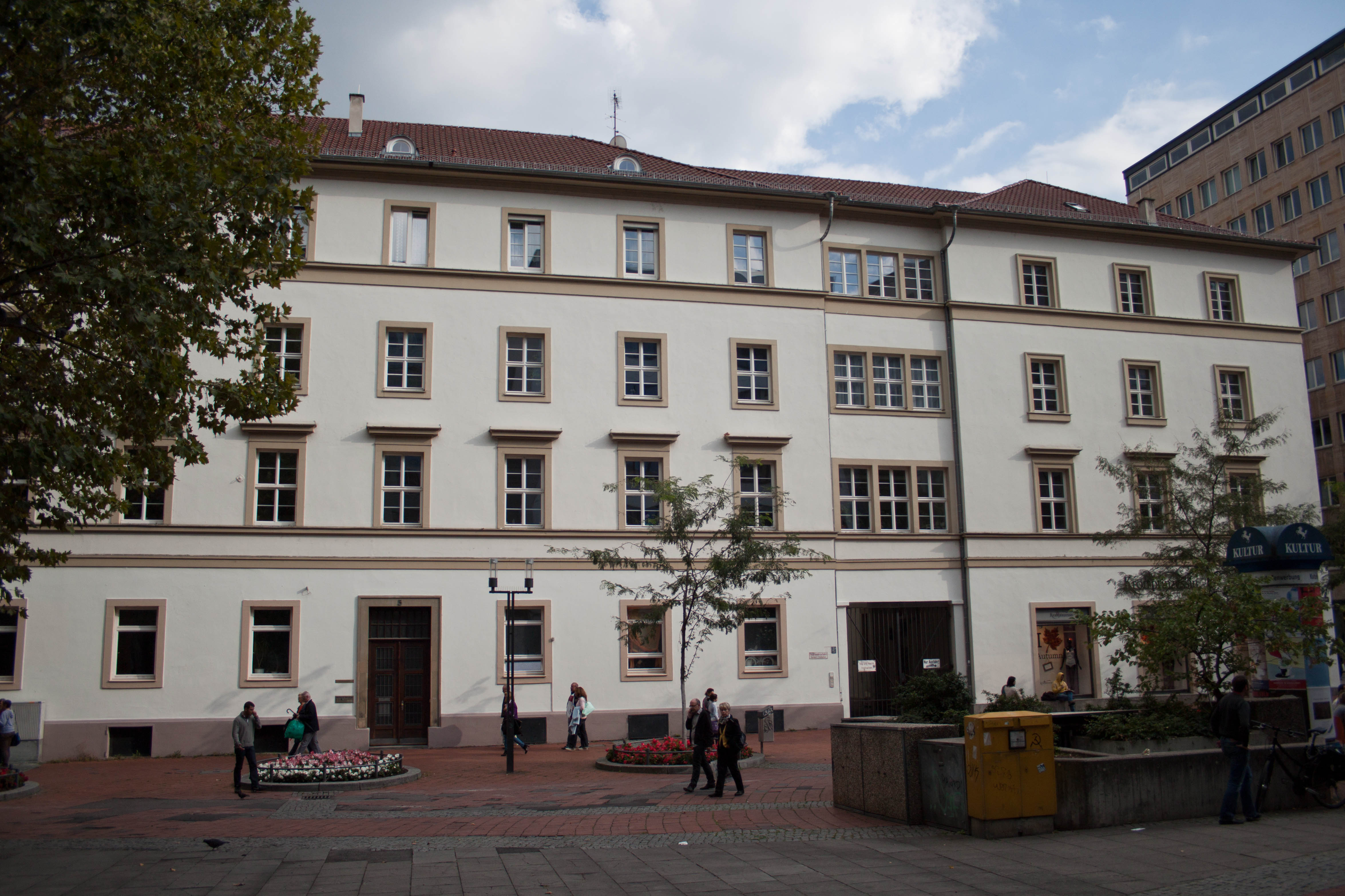 New Chancery in Stuttgart Germany